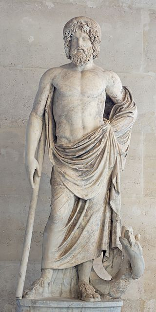 Estatua de Asclepios, dios de la medicina, copia romana de la griega original.